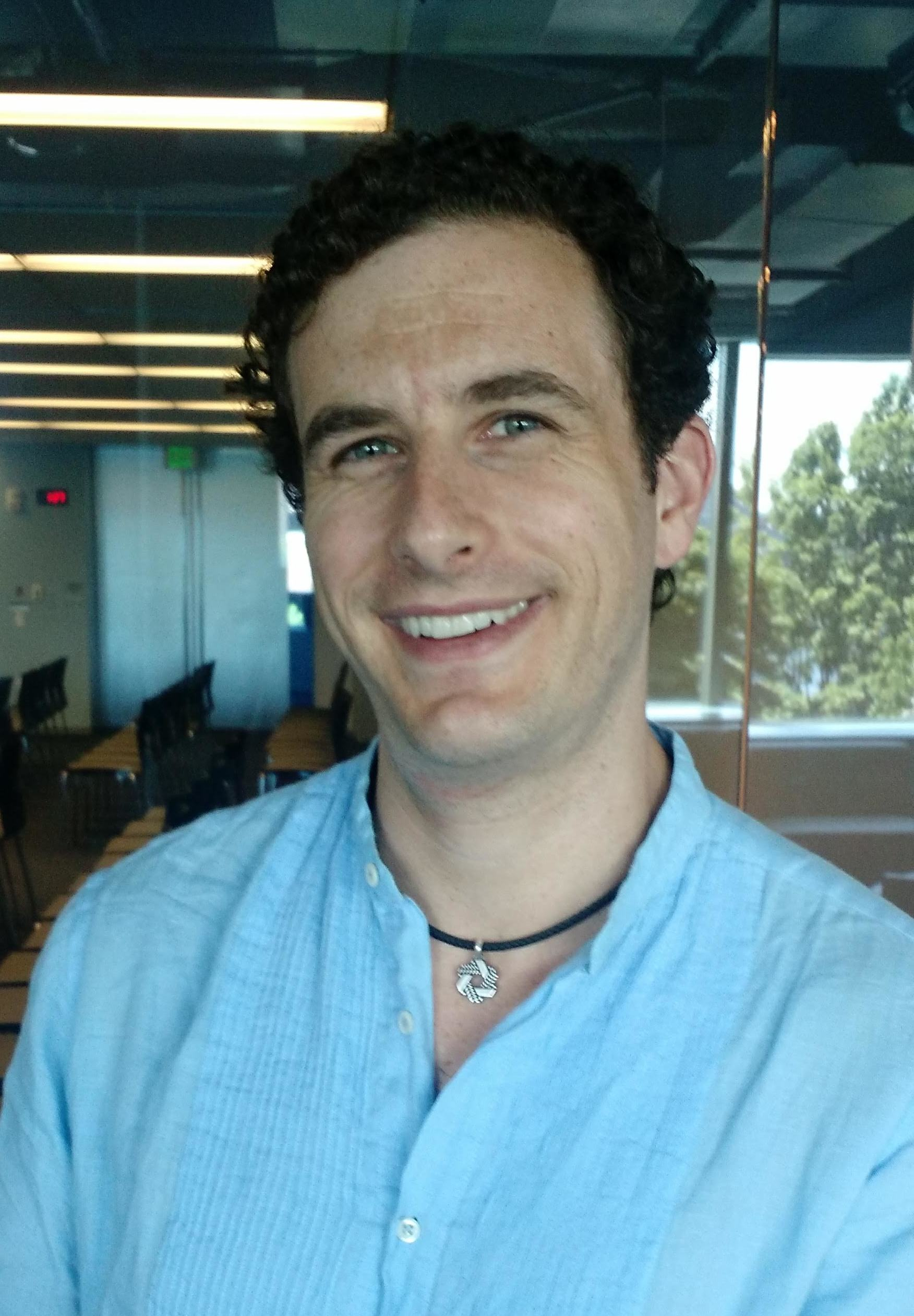 American economist E. Glen Weyl at NERD, the Microsoft New England Research & Development Center, discussing his book Radical Markets.